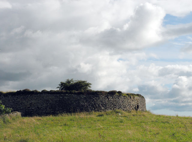 Cashel, Kilmovee This cashel (stone age fort) is one of the largest and most complete in the west of Ireland with a surviving entrance and chambers within the walls.